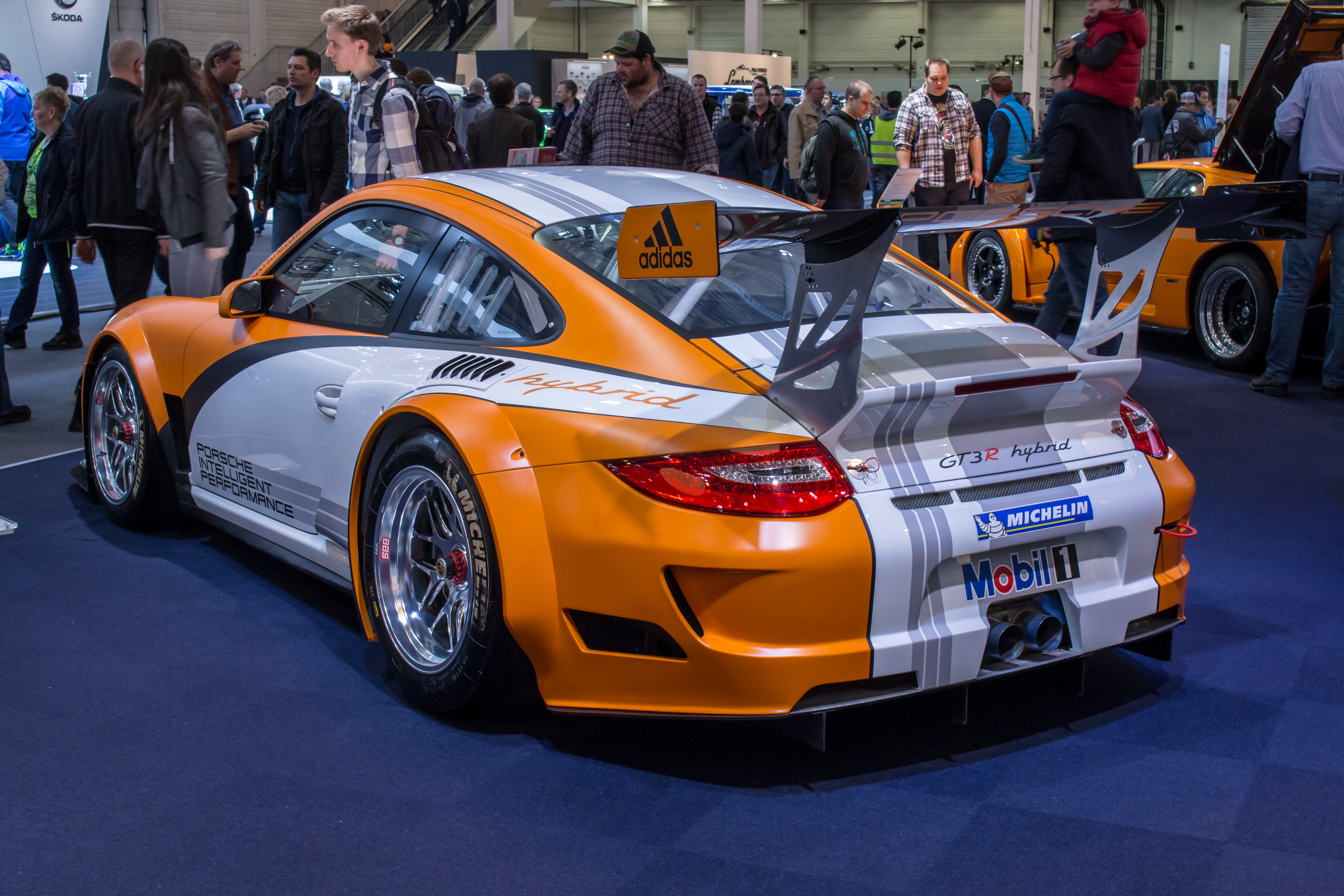 Techno-Classica 2018, Essen